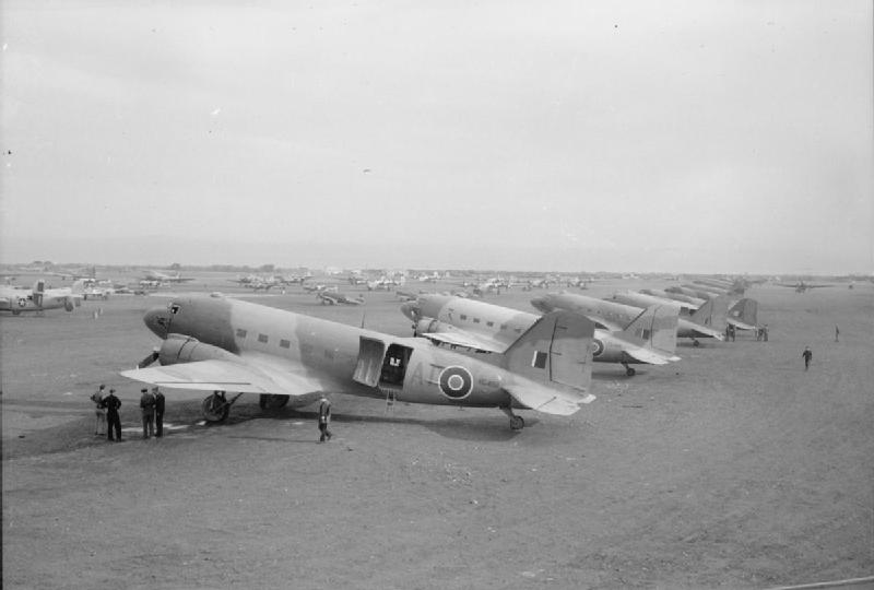 Royal Air Force- Italy, the Balkans and South-east Europe, 1942-1945. Douglas Dakota Mark IIIs of No. 267 Squadron RAF lined up at Bari, Italy. Aircraft nearest the camera are (front to rear): KG496 'AI', FL589 and FD957.